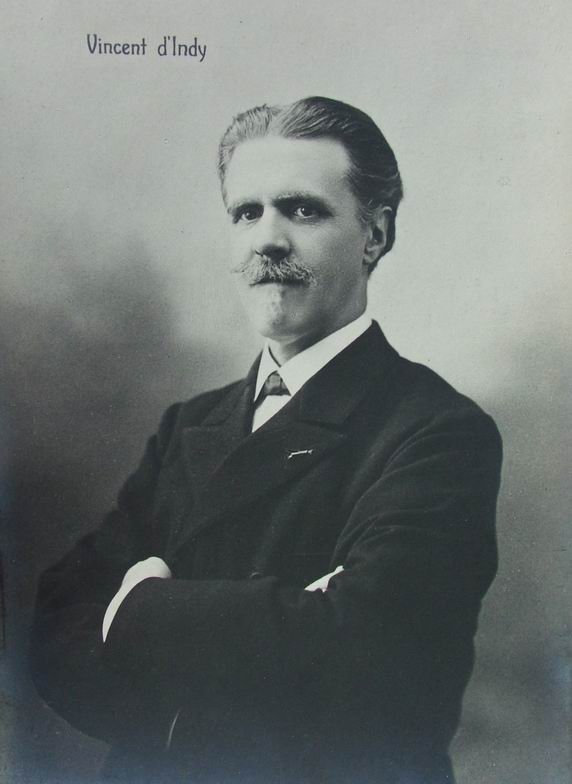 Vincent d'Indi - (1851–1931) french Composer & Pedagog (Director Schola Cantorum)